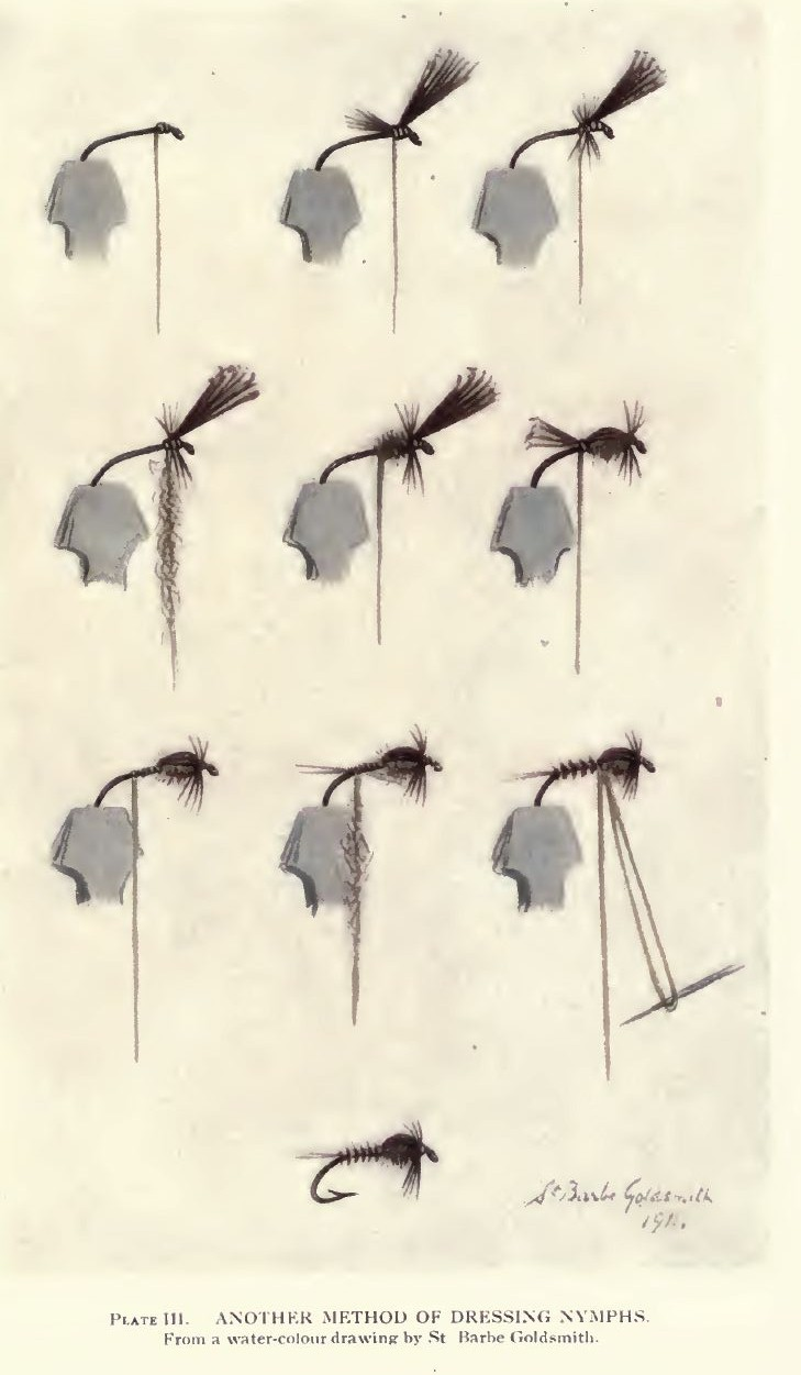 Plate III from The Way of A Trout with the Fly by G.E.M. Skues, 1921. Very early representation of method of tying nymphs for trout fishing.